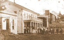 Sutter Creek, California in 1853. Downloaded from Regardless of its publication status, it is now in the public domain due to its age. Per [1], even if it was published after 1923 and/or the creator died within the last 70 years, it has been more than 120 years since its creation. Afbeelding:SutterCreek1853.jpg